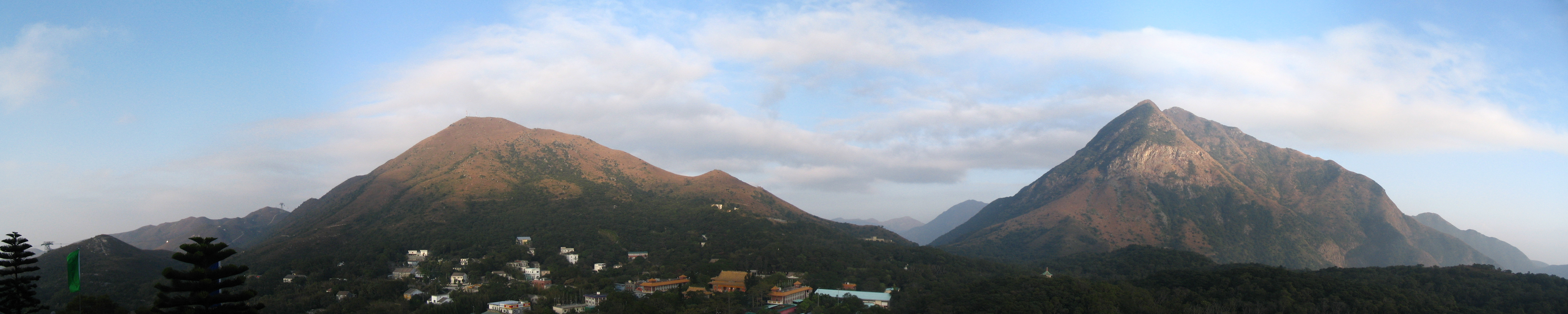 Panoramic photo of Nei Lak Shan and Lantau Peak, combined from 2115326260, 2115327082, 2115328006, 2114551211, 2114552117, 2114552873, 2114553773, 2115332210, 2114555383 and 2114556119